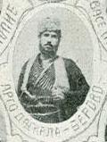 Portrait of IMARO member Arso Daskala from Berovo